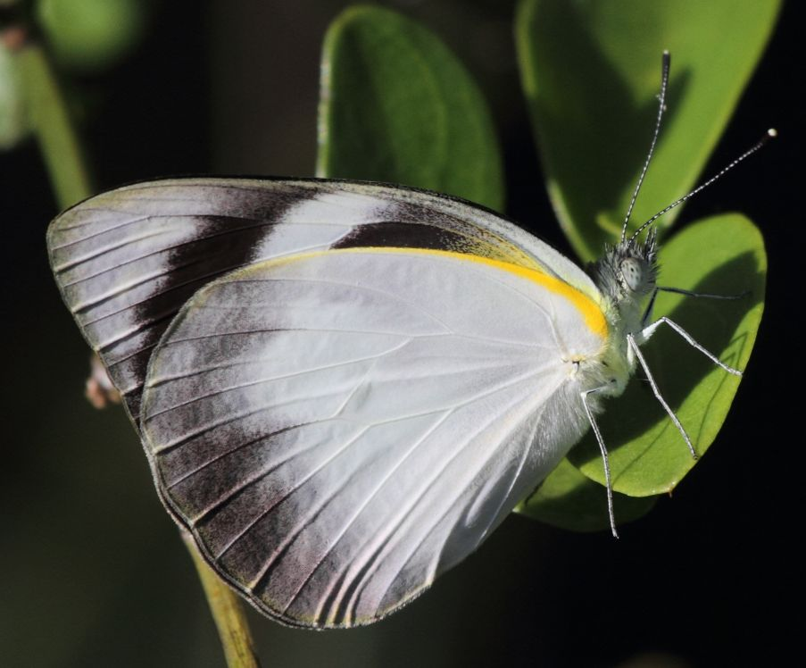 Mkhuze Game Reserve, KwaZulu-Natal, South Africa